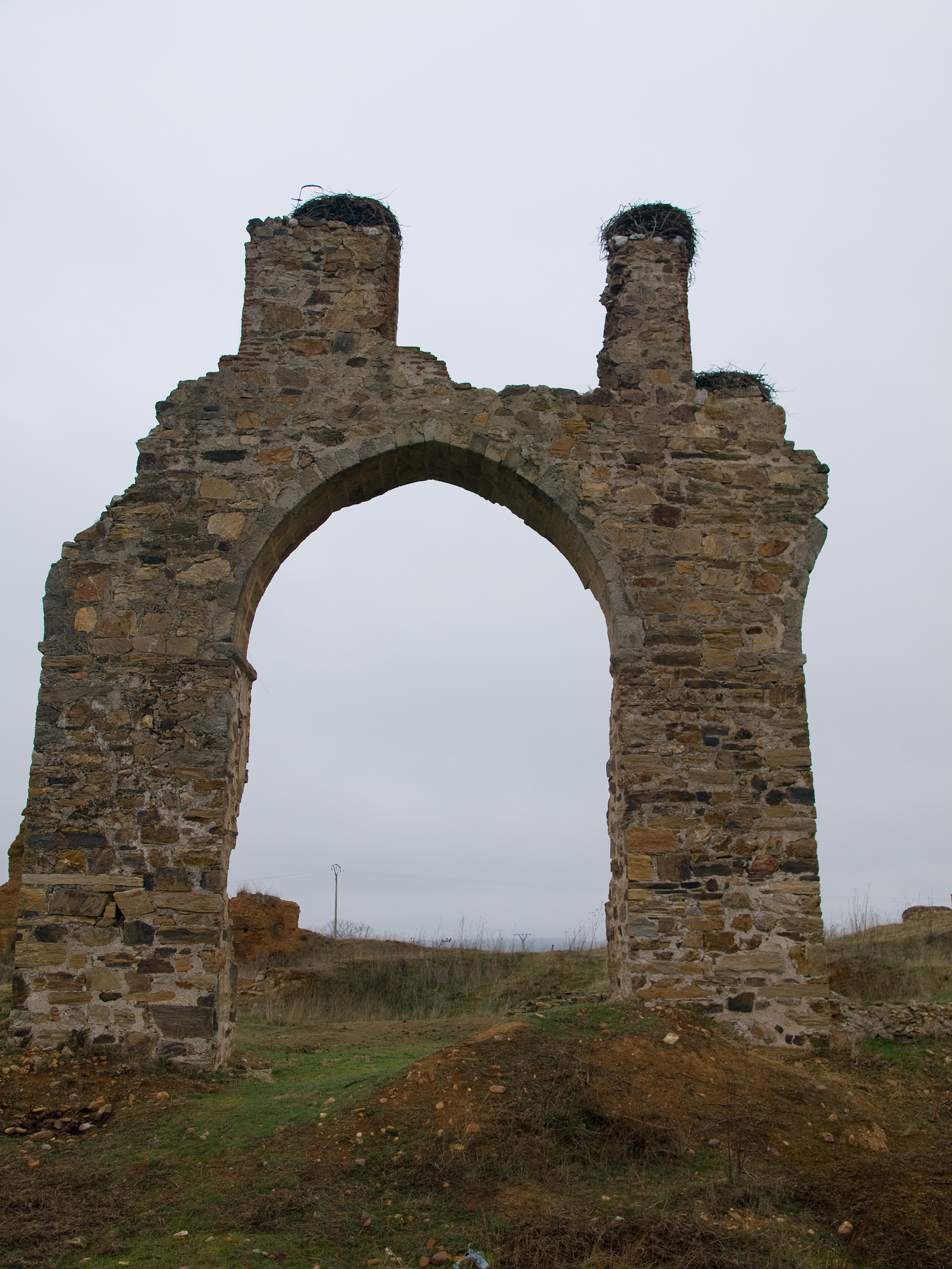 Ruins in Castrocalbón, province of León, Spain